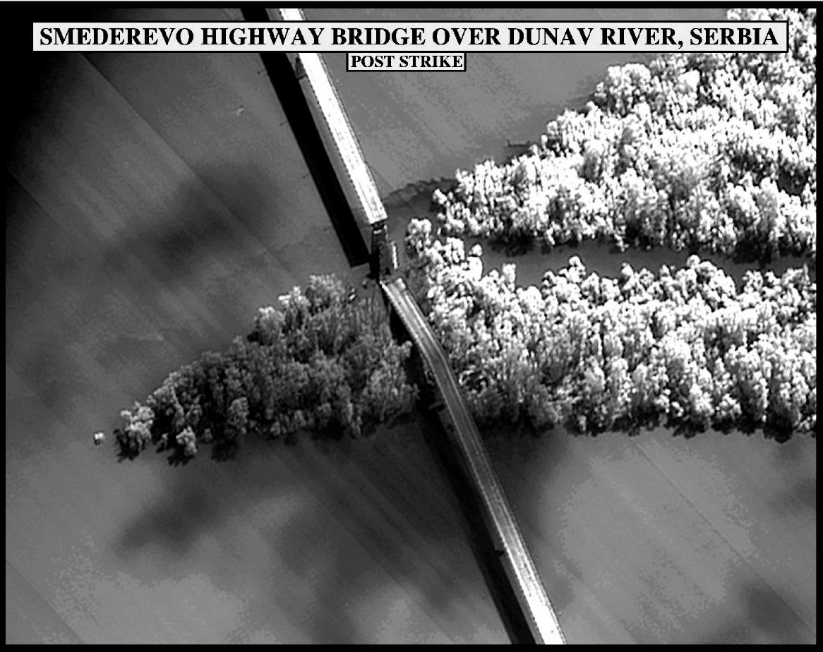 Post-strike bomb damage assessment photograph of the Smederevo Highway Bridge over Dunav River, Serbia, used by Joint Staff Director of Intelligence Rear Adm. Thomas R. Wilson, U.S. Navy, during a press briefing on NATO Operation Allied Force in the Pentagon on April 30, 1999.